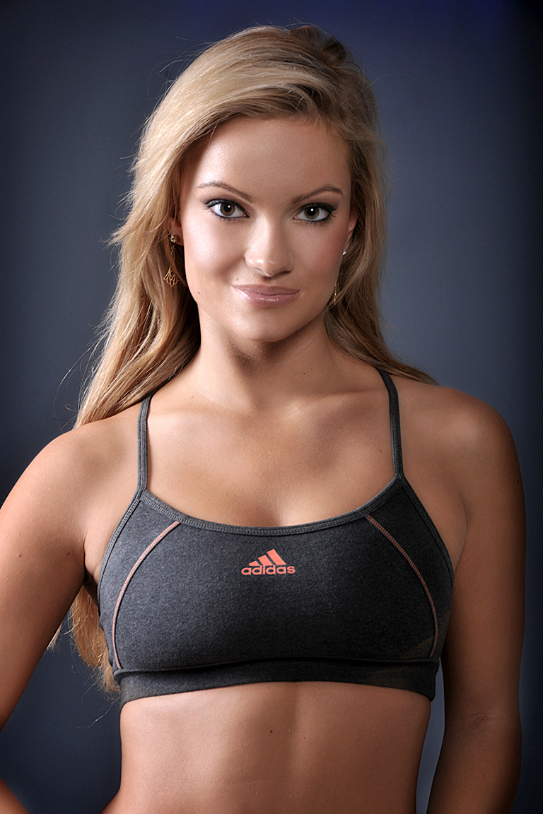 Woman wearing Adidas black sports bra - Photo by Glenn Francis of